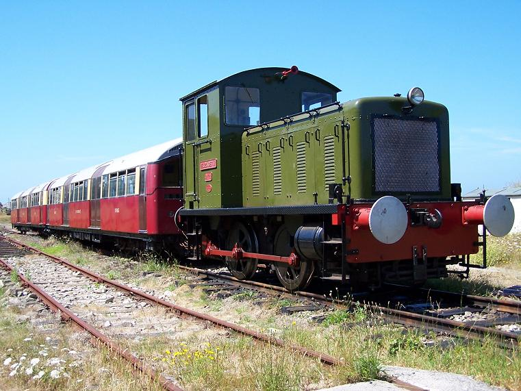 Elizabeth and London tube carraiges, Alderney Railway. Photographer David Martin